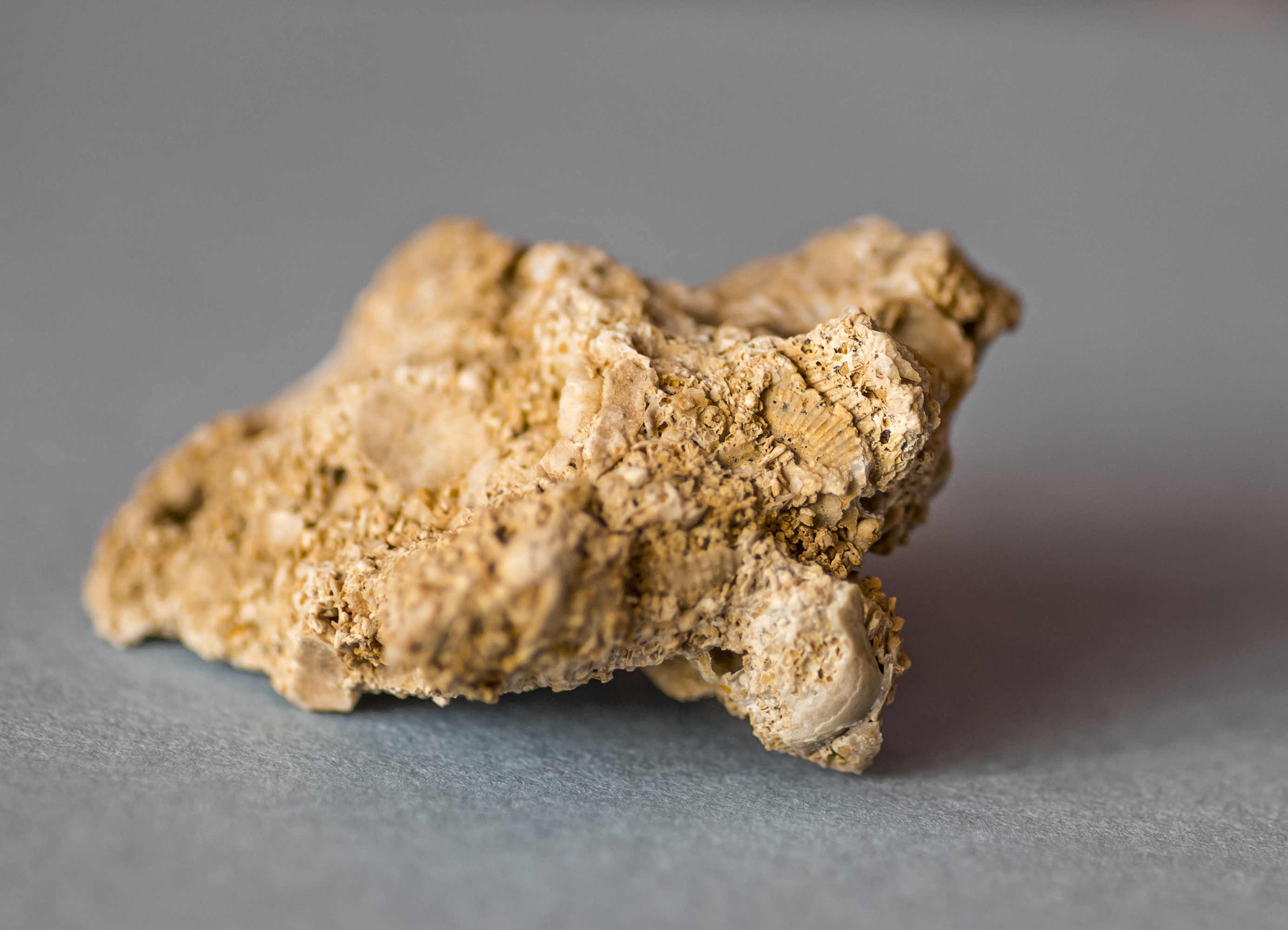 Coquina (shell rock). Сollected near Saki, the Crimea.